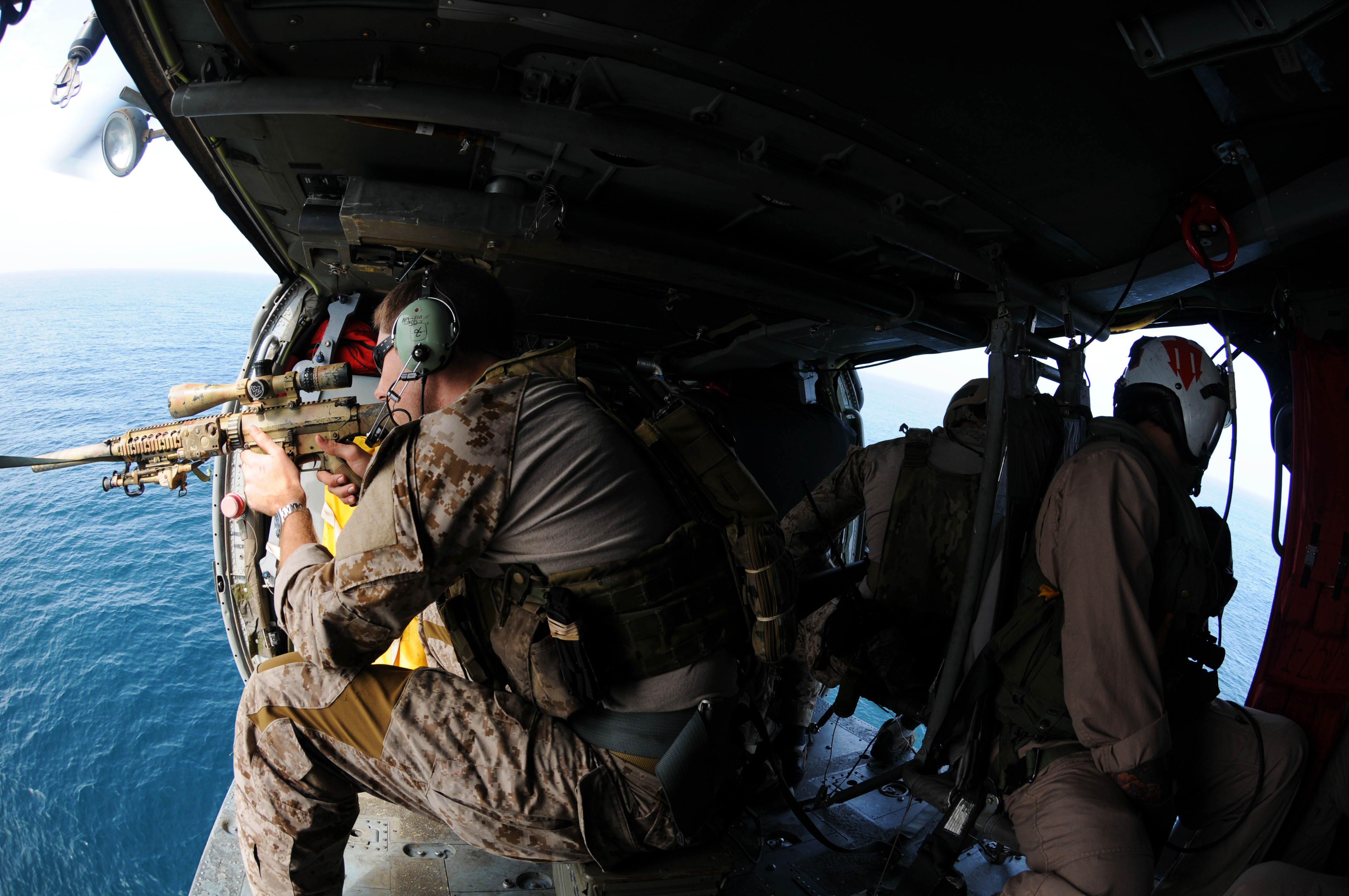 ARABIAN SEA (Aug. 22, 2011) A Navy SEAL fires an MK-11 sniper rifle from an MH-60S Sea Hawk helicopter assigned to Helicopter Sea Combat Squadron (HSC) 9, deployed aboard the aircraft carrier USS George H.W. Bush (CVN 77), during a training flight. George H.W. Bush is deployed to the U.S. 5th Fleet area of responsibility on its first operational deployment conducting maritime security operations and support missions as part of Operations Enduring Freedom and New Dawn. (U.S. Navy photo by Mass Communication Specialist Seaman Apprentice Brian Read Castillo/Released)